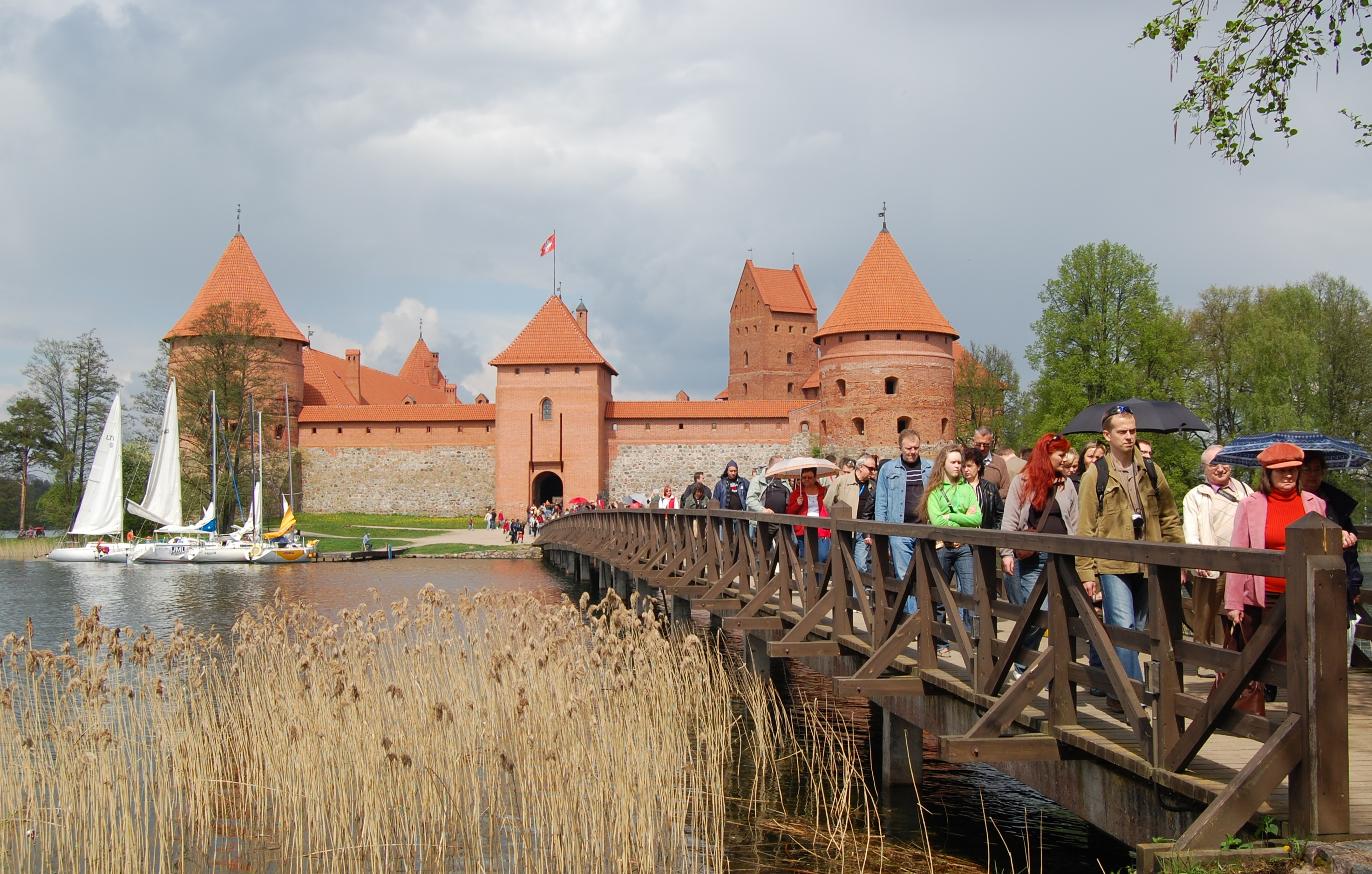 Trakai Island Castle, Lithuania during high tourism season, may 3, 2008.